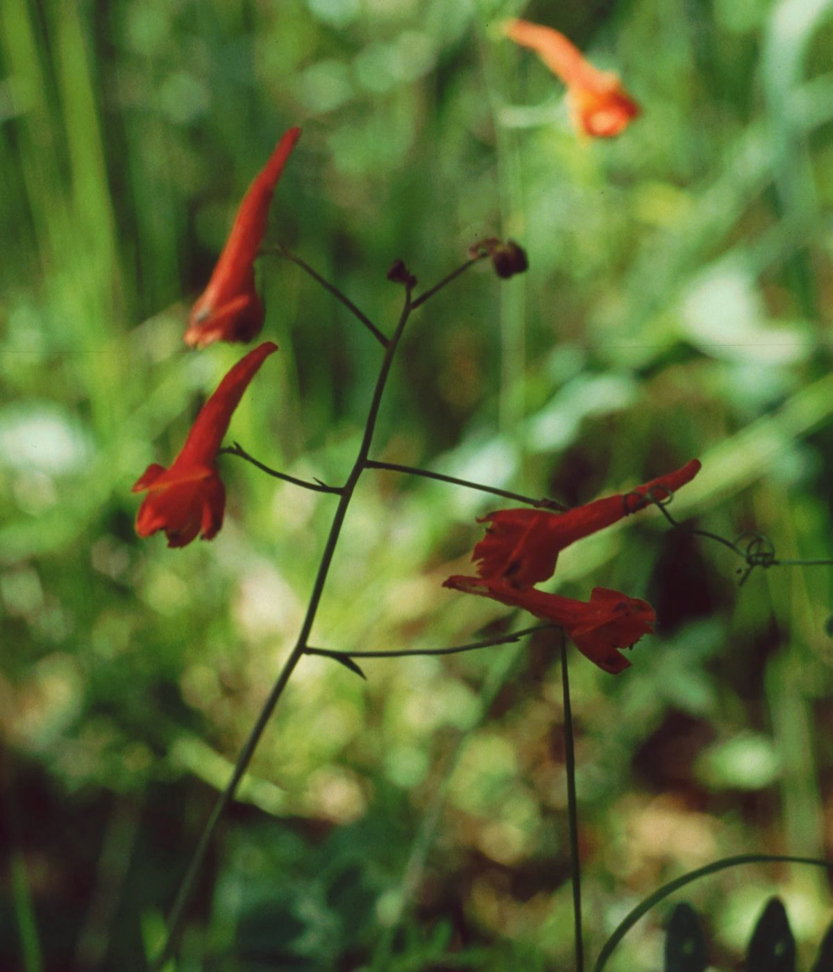 Delphinium nudicaule (Ranunculaceae) — red larkspur. At Jack London State Historic Park — SW of Glen Ellen, in Sonoma County, California.